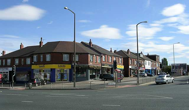 Ring Road - Beeston Park